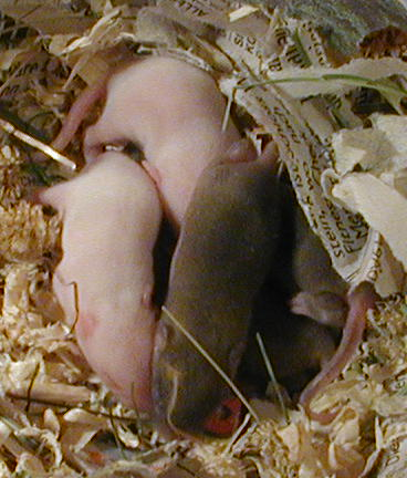 5 Mice (* 15 Nov 2004) - 9 days old, when their mother died. They were afterwards hand-fed with cat-milk and all survived. Picture taken and uploaded by Kessa Ligerro.